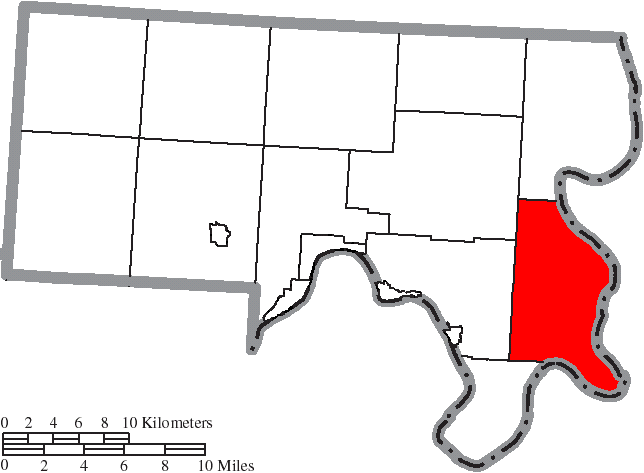 Map of the municipal and township boundaries of Meigs County, Ohio, United States, as of the 2000 census, with the location of Lebanon Township highlighted. Township borders are shown only in unincorporated areas in order to differentiate incorporated and unincorporated areas more clearly.